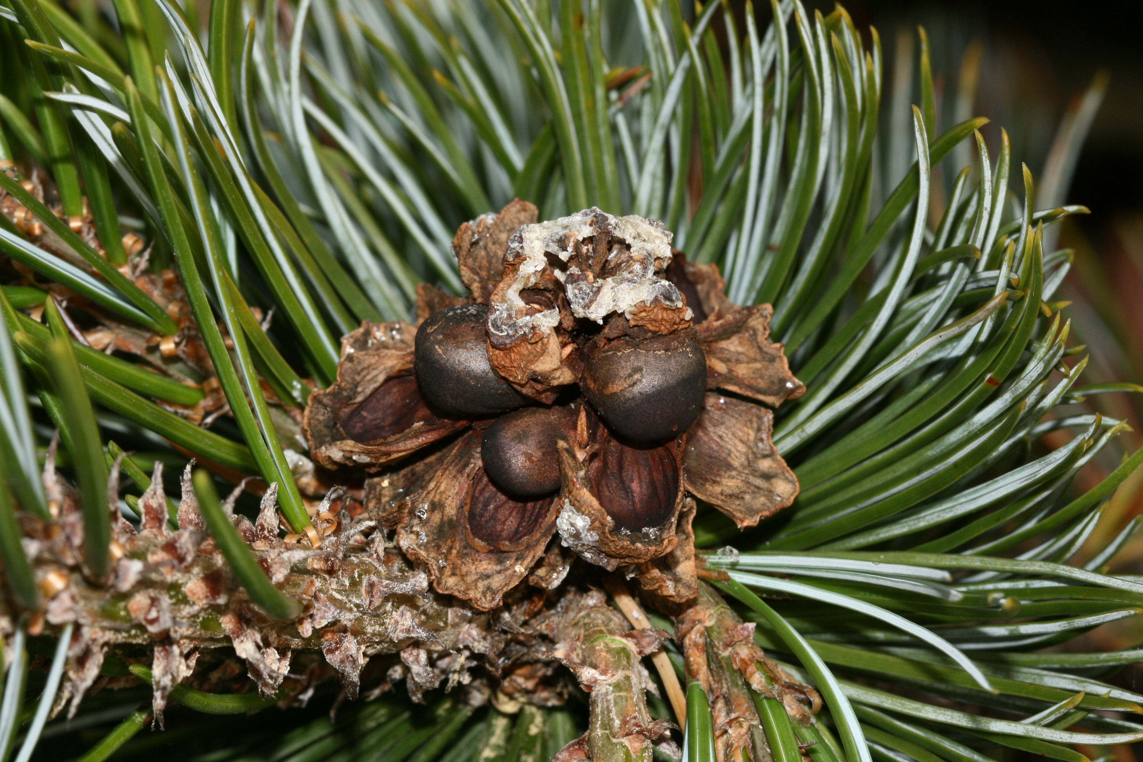 Royal Botanic Garden, Edinburgh, Scotland